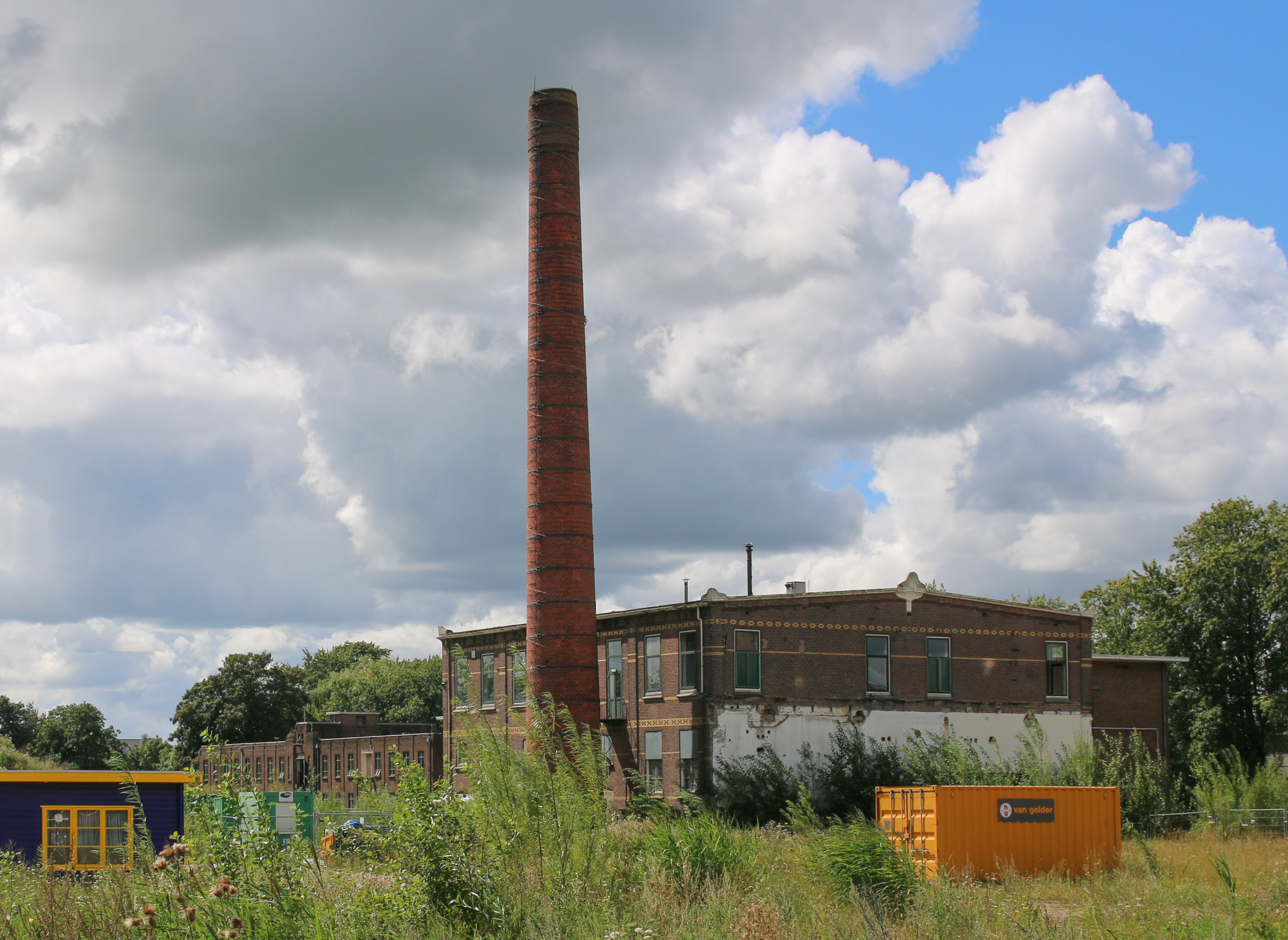 Wasserij Woerden op het Defensie-eiland